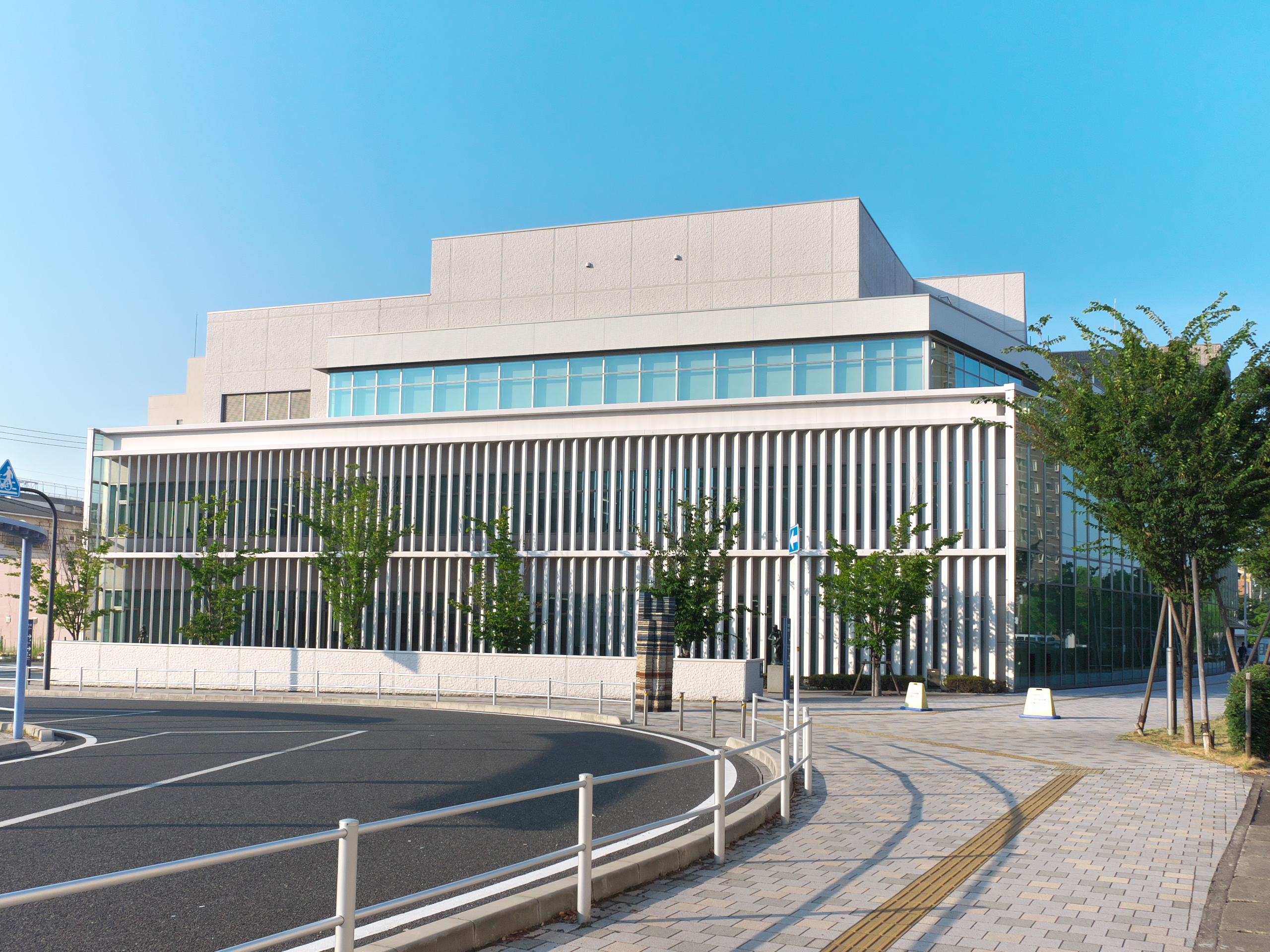 Library and Hall Building, Kojima Citizens Exchange Center (Kurashiki Municipal Kojima Library, and Jeans Hall)